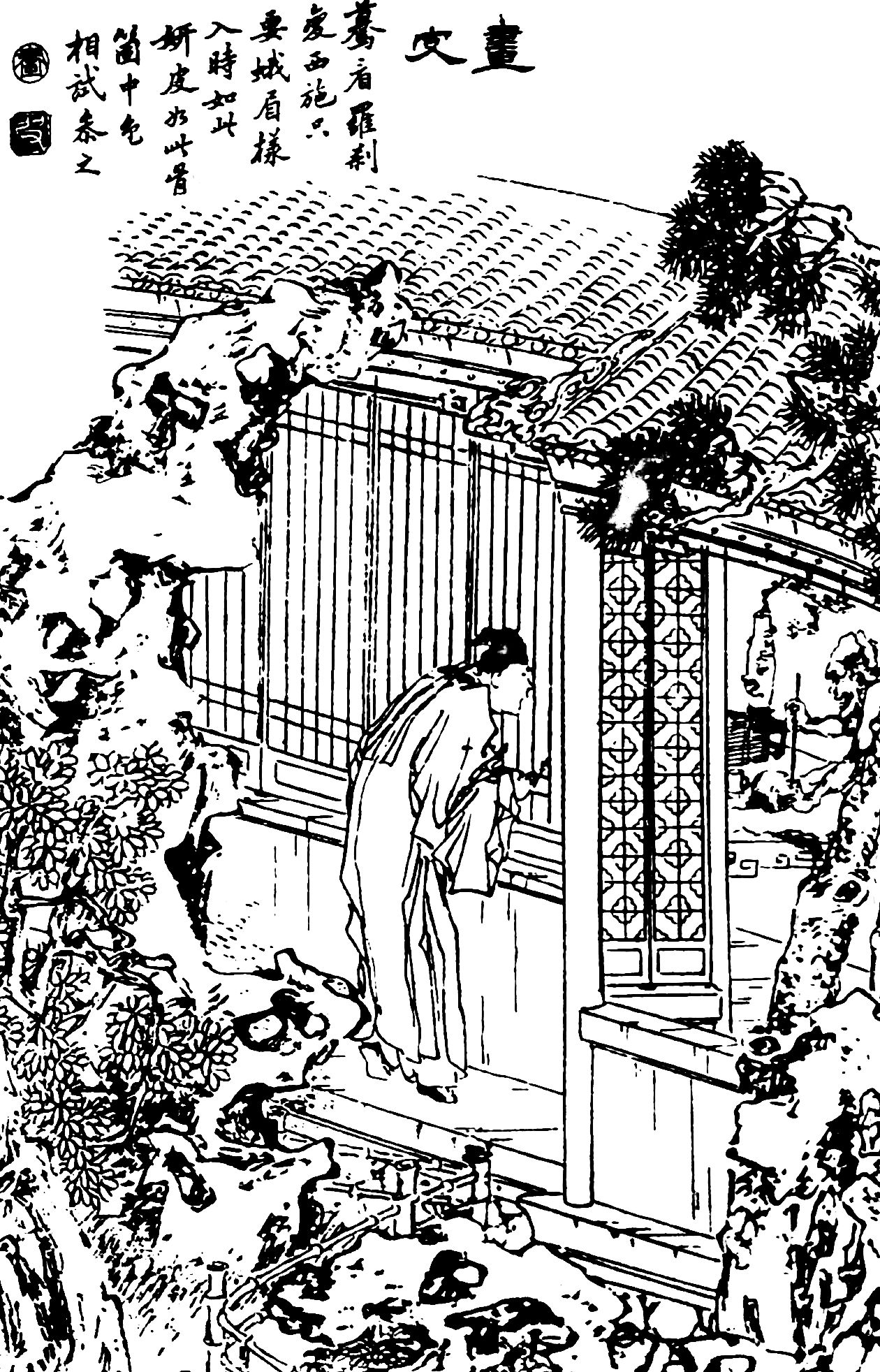 19th-century illustration of a scene from the short story "The Painted Skin" collected in Strange Tales from a Chinese Studio (1740).